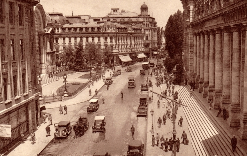 Victory Avenue in Bucharest Romania 1940's. The Post Palace on right (today the National History Museum)